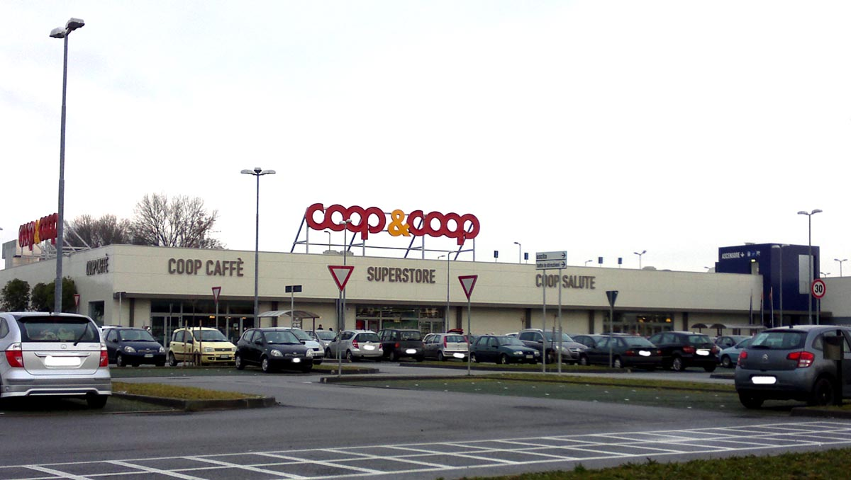 Coop&Coop - Campo Grande di Mestre